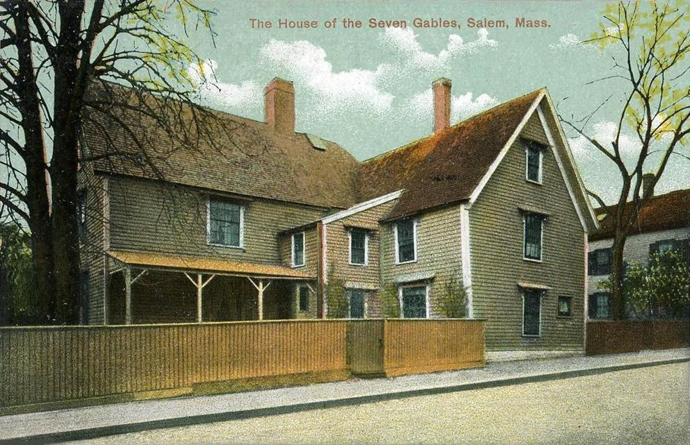 The House of the Seven Gables, Salem, Massachusetts. This shows the Turner-Ingersoll House (1668) before its 1908-1910 restoration by architect Joseph Everett Chandler.